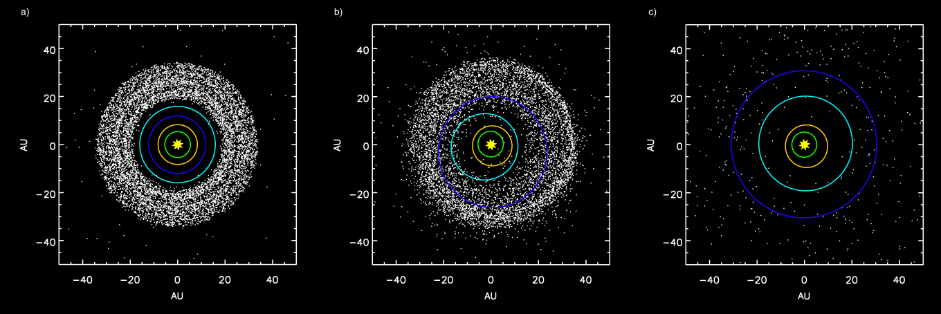 Simulation showing the outer planets and the Kuiper belt: a) Before Jupiter–Saturn 2:1 resonance. b) Scattering of Kuiper belt objects into the Solar System after the orbital shift of Neptune. c) After ejection of Kuiper belt bodies by Jupiter. Planets shown: Jupiter (green circle), Saturn (orange circle), Uranus (light blue circle), and Neptune (dark blue circle). Simulation created using data from the Nice Model.[1]